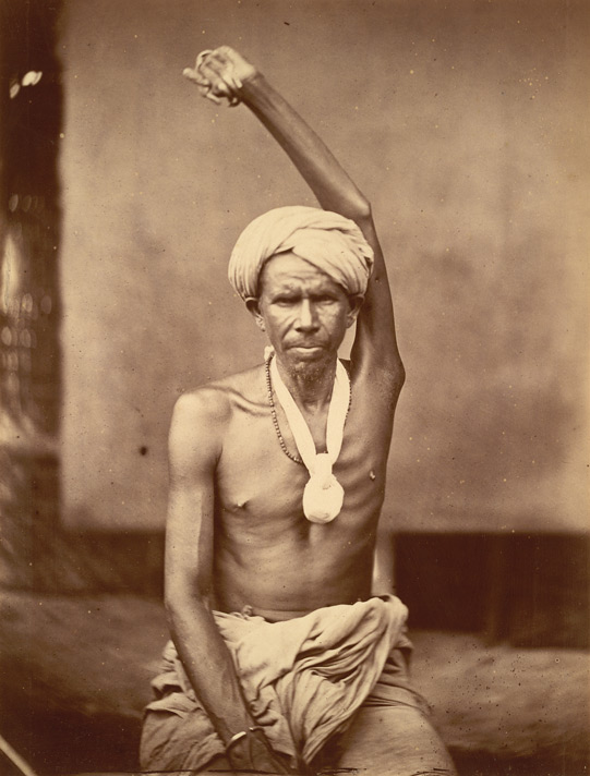 Photograph showing a 'sanyasi' or wandering Hindu mendicant taken by an unknown photographer in the early 1860s. Sanyasis or sadhus are holy men who have taken the path of renunciation.